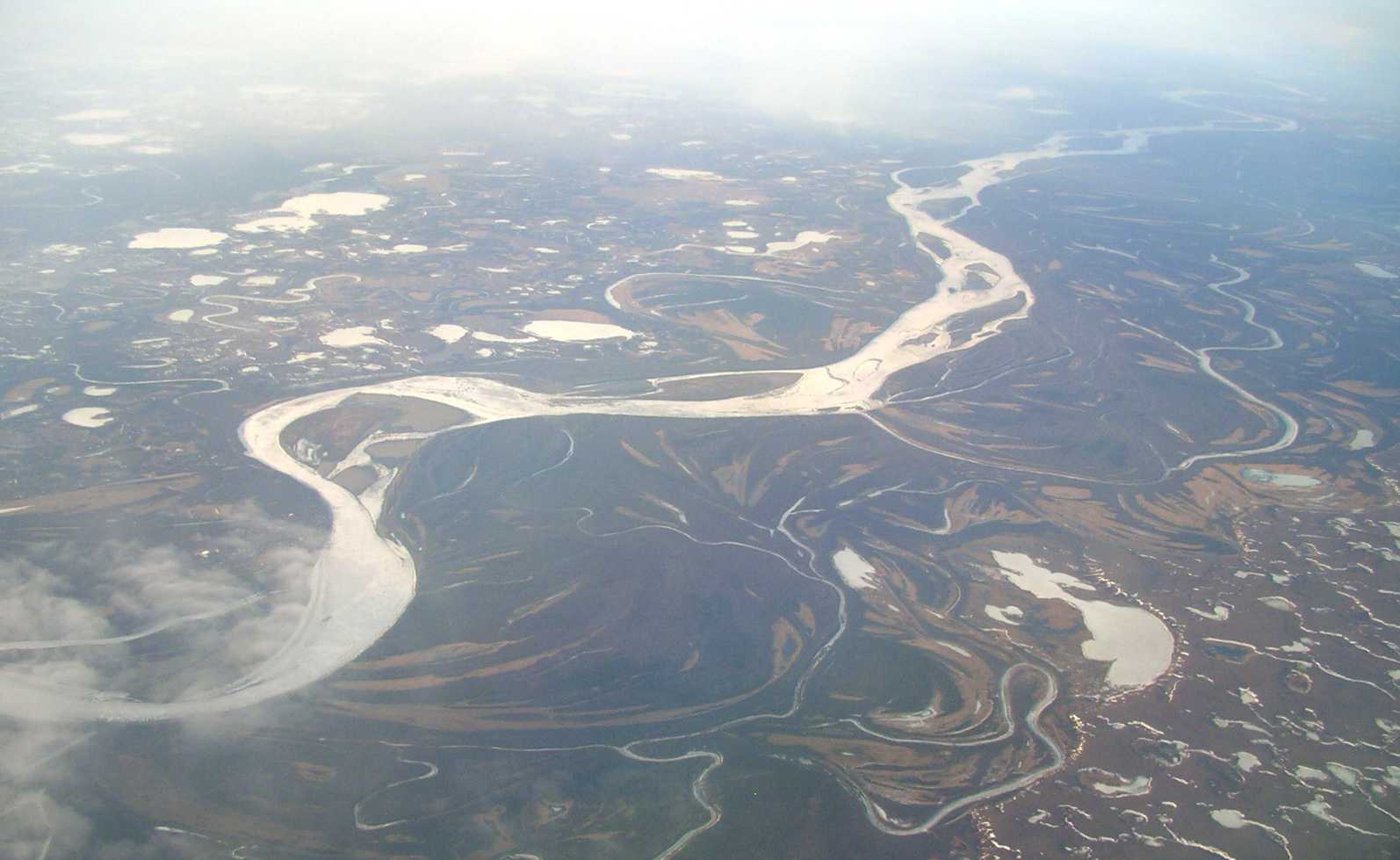 An aerial view of the Kuskokwim River, a mosaic of ice and earth.